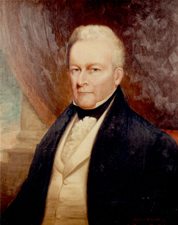 Artist: Florence MacKubin (1857–1918) DescriptionAmerican painterDate of birth/death19 May 18572 February 1918Location of birth/deathFlorenceBaltimoreAuthority control : Q16059497 (After an original by John Beale Bordley). Date: 1906 Medium: Oil on canvas